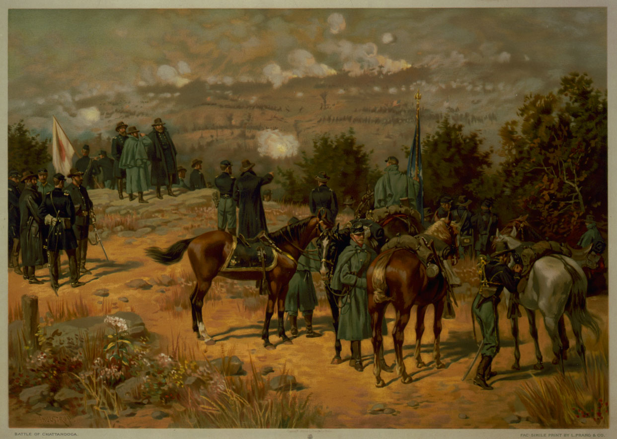 depicting the Battle of Missionary Ridge) of the Chattanooga Campaign.